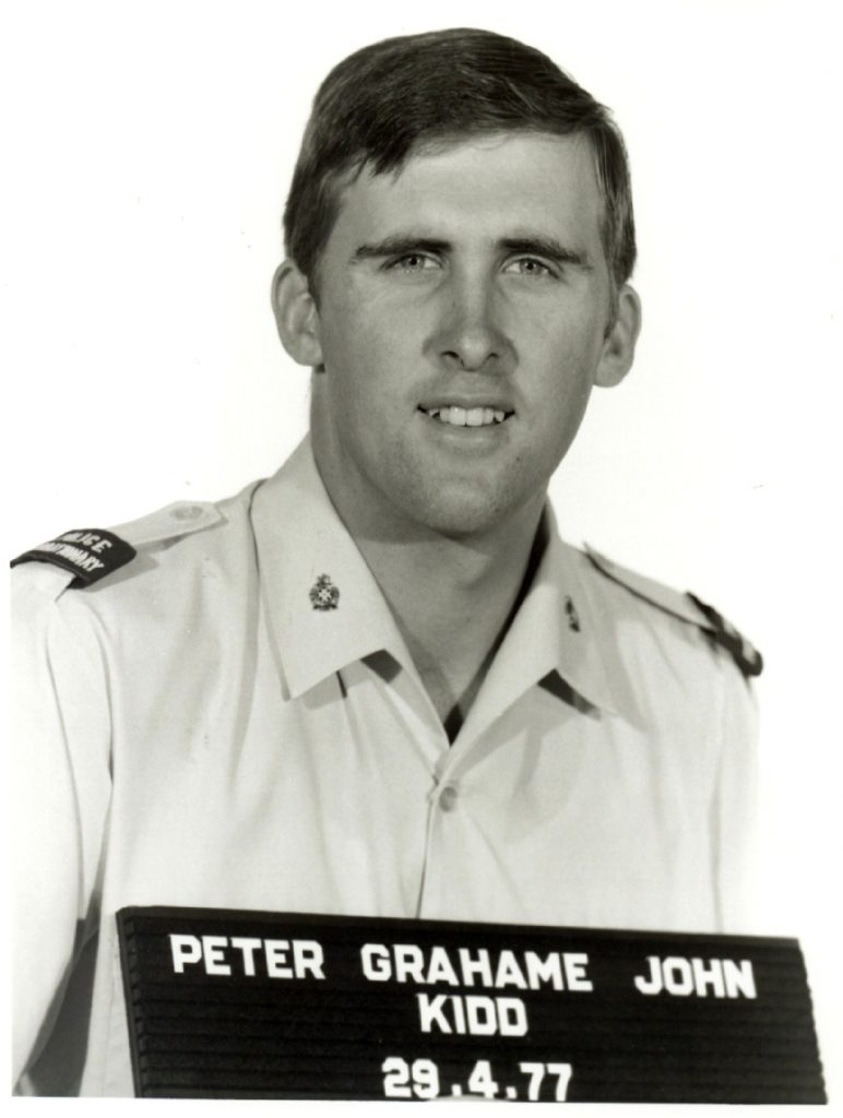 The Induction photo taken of Constable Peter Kidd, 1977, later killed on duty on 29 July 1987